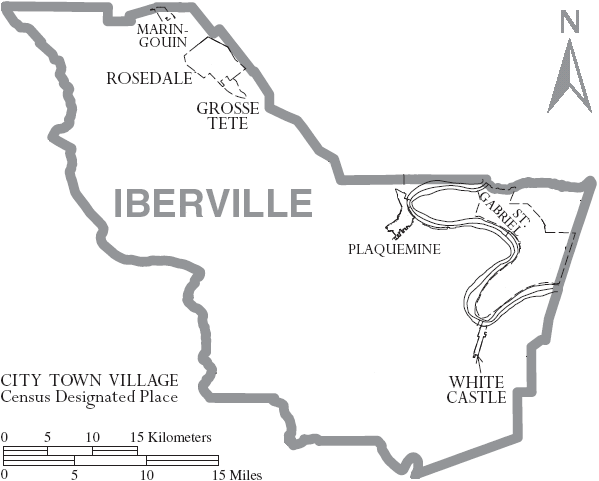 Map of Iberville Parish, Louisiana, United States with municipal boundaries